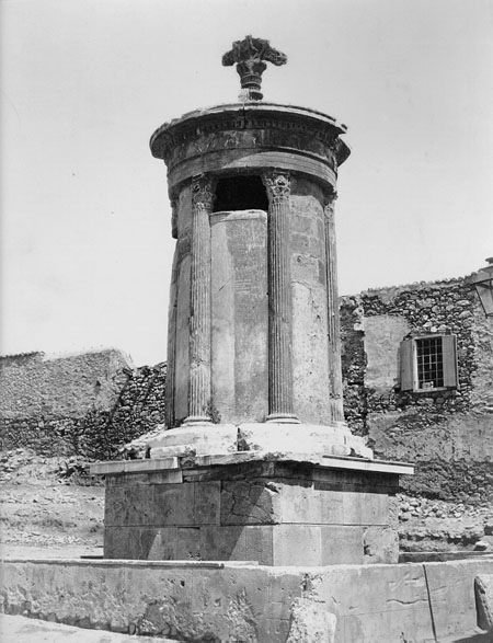 The choragic monument of Lysicrates. Picture shot in 1880 by Adrian Bonfils.